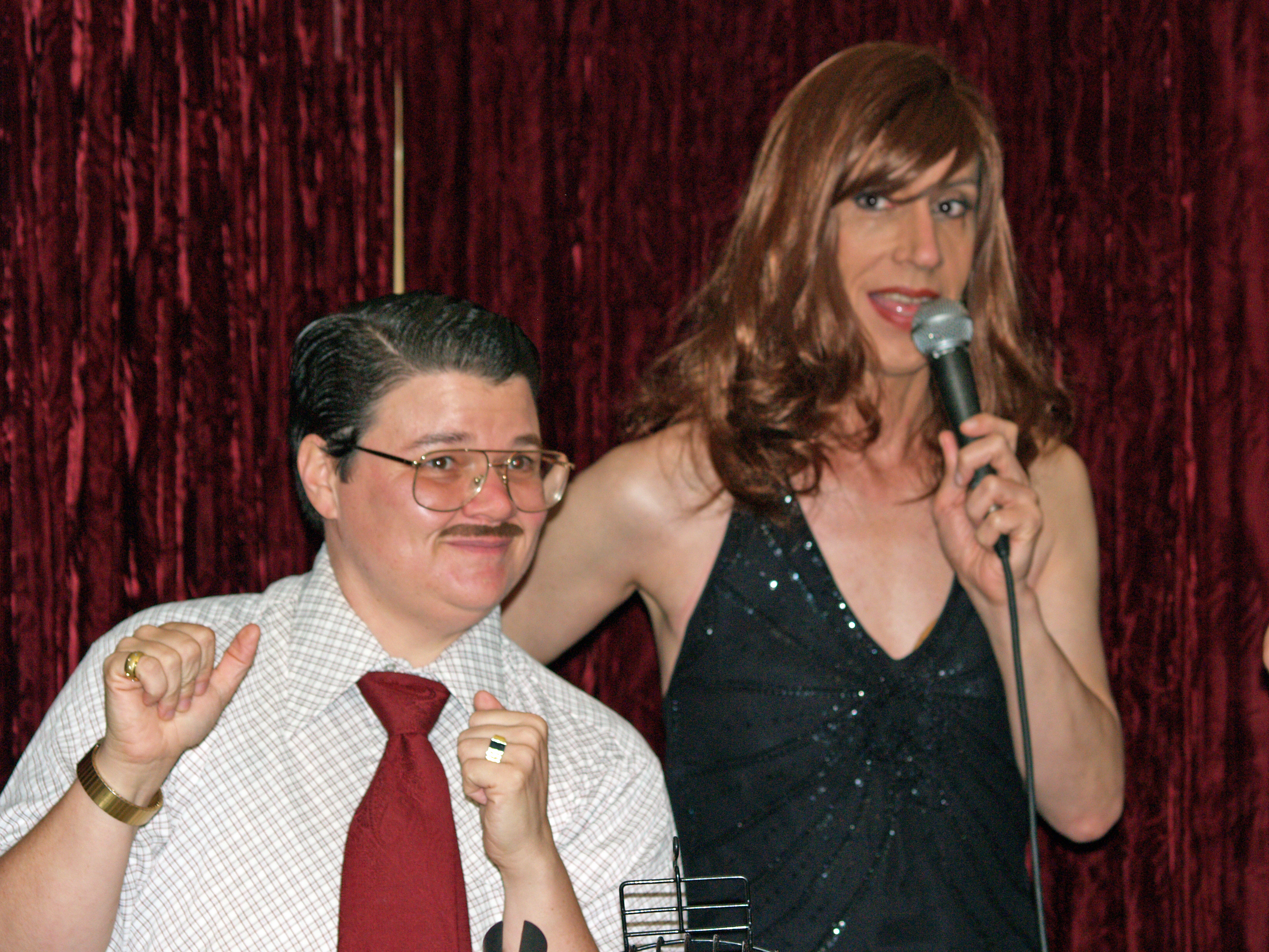 Murray Hill and Linda Simpson